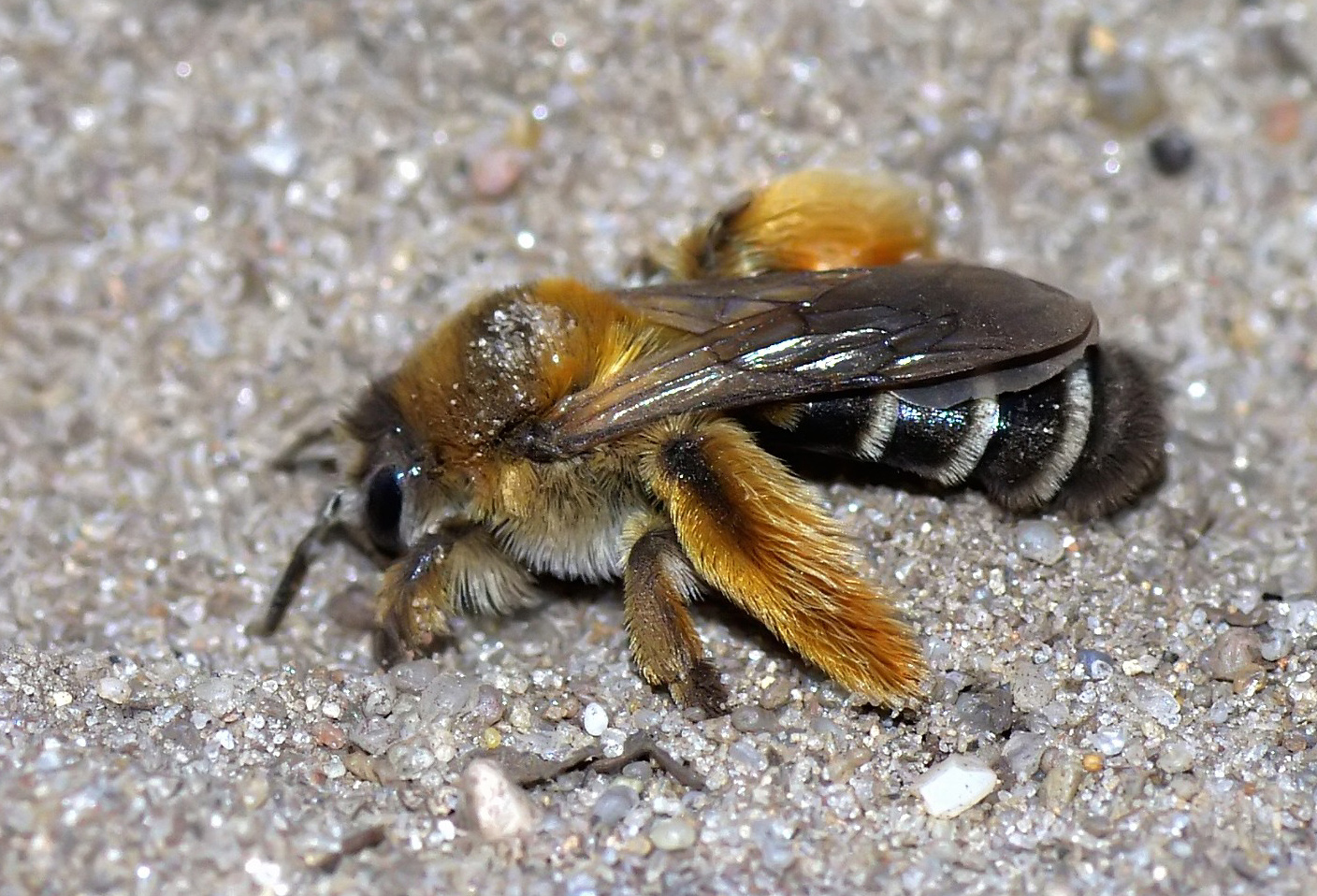 A female specimen of the solitary bee Dasypoda hirtipes (Syn.: D. altercator).